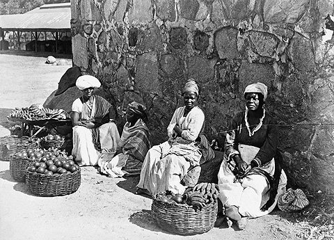 Imagem utilizada para projeto de alunos da UFRPE período 2019.1 na disciplina de História e Cultura Afro-Brasileira